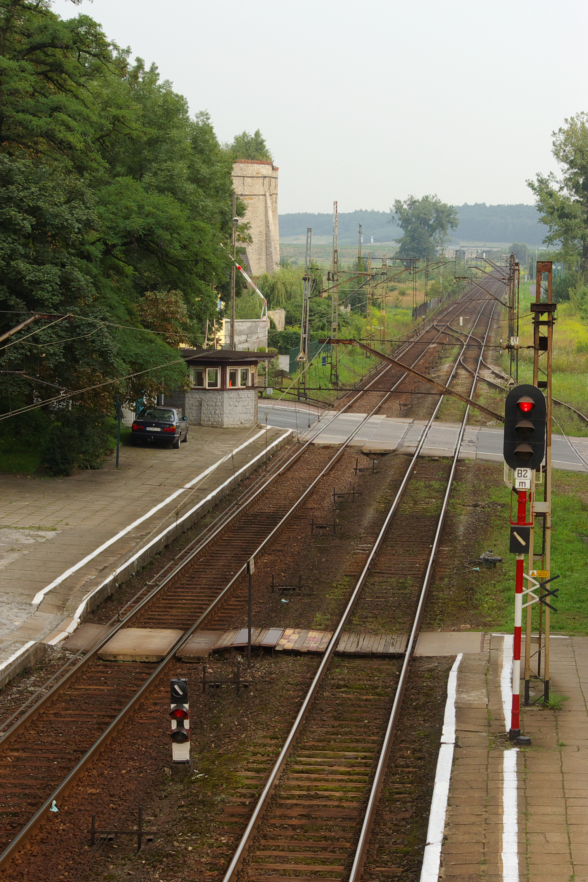 Railway Route 136 in Gogolin towards Kędzierzyn Koźle